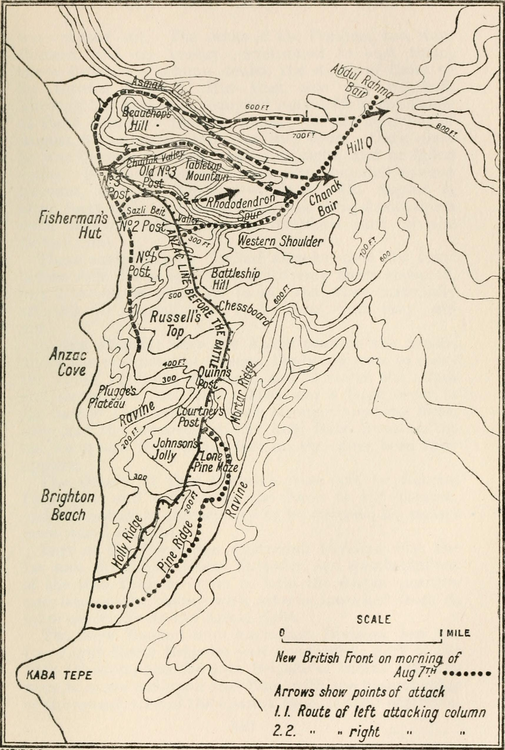 First phase of the Battle of Sari Bair, showing the British attack, 6–8 August 1915.